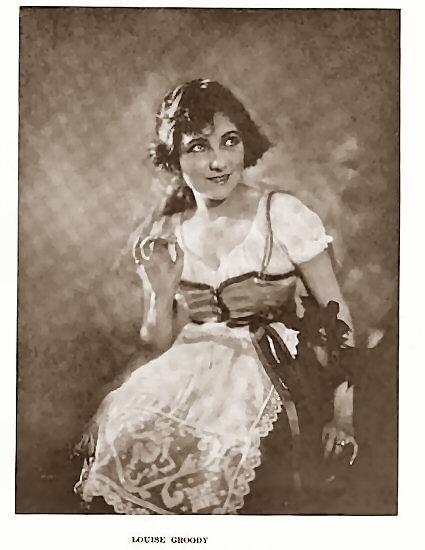 Actress Louise Groody.